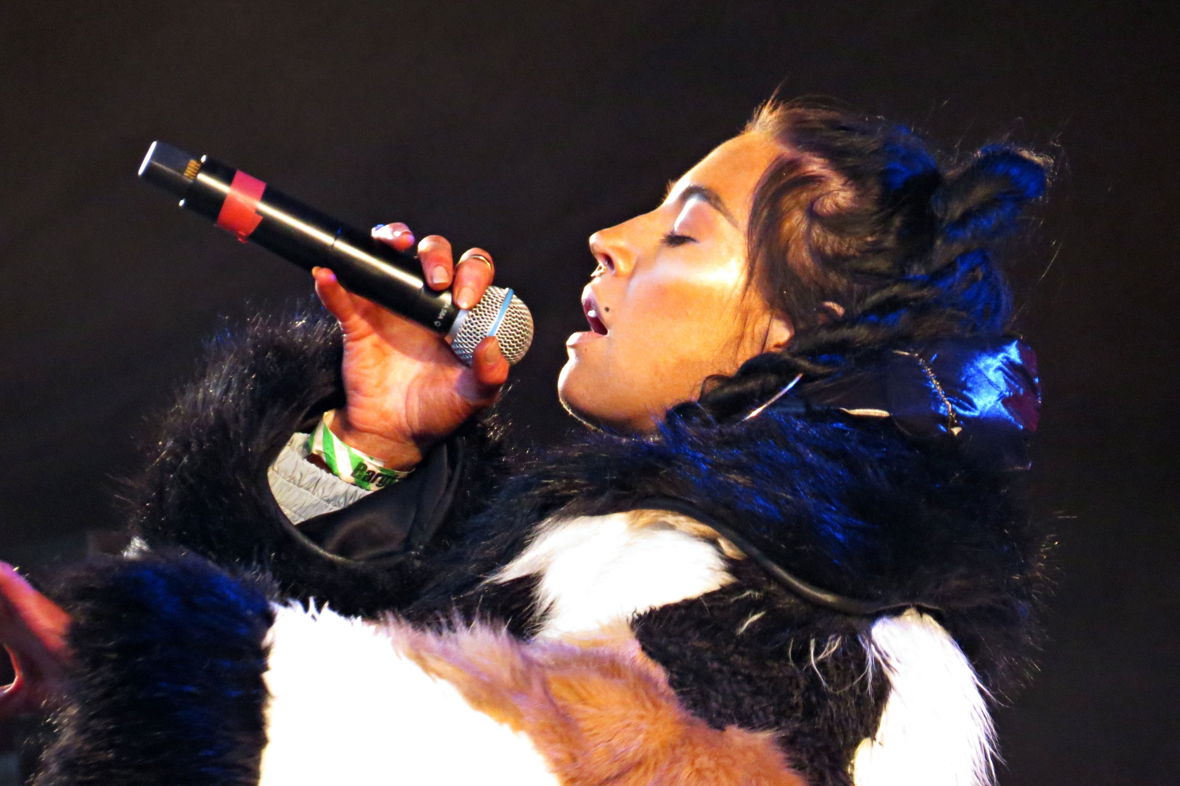 Maxida Märak at Riddu Riđđu 2019